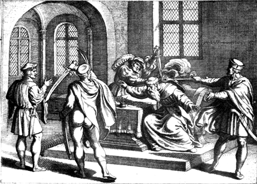 Assassination of Cardinal George Martinuzzi on december 17th 1551, in his castle in Alvincz.